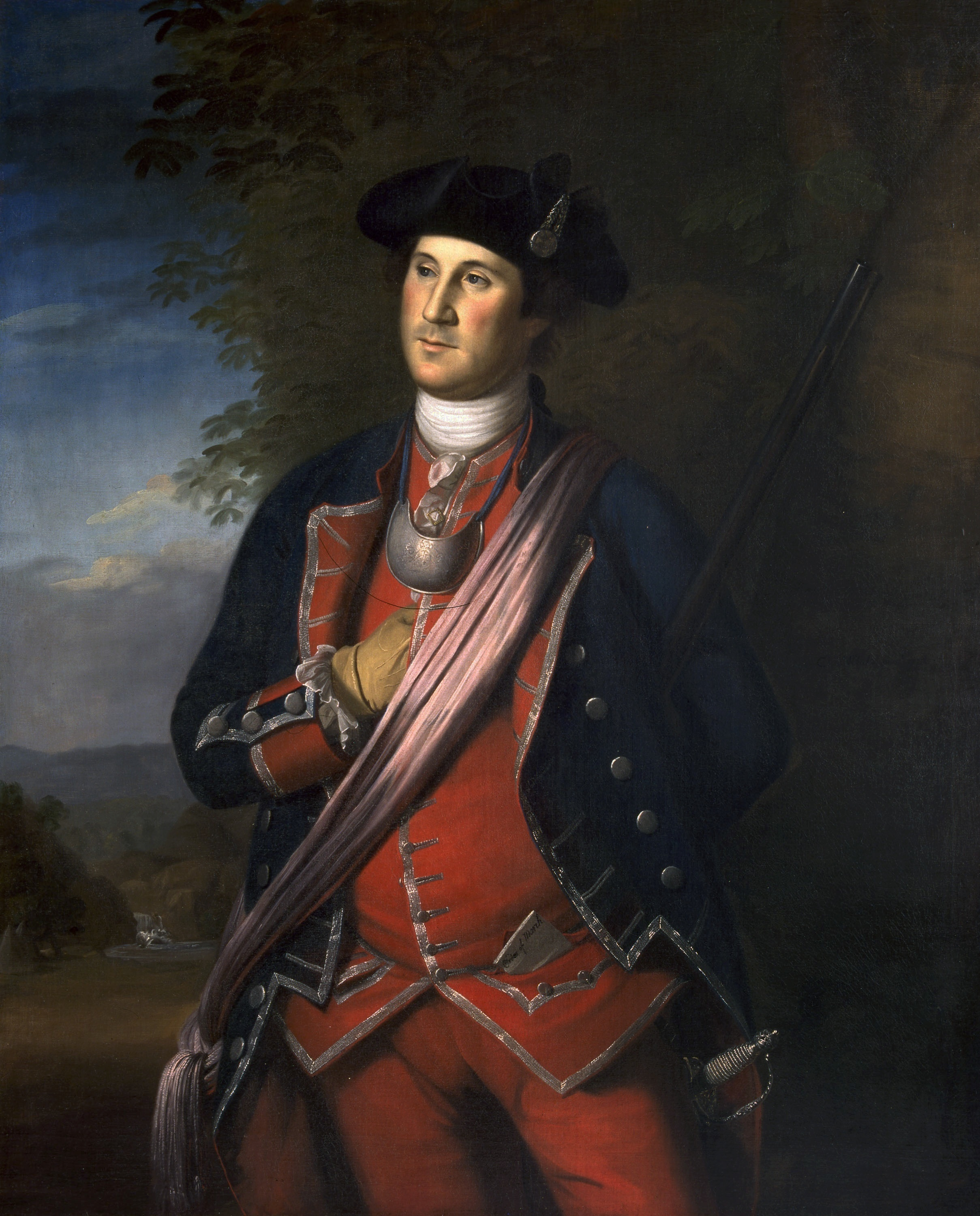 The earliest authenticated portrait of George Washington shows him wearing his colonel's uniform of the Virginia Regiment from the French and Indian War. The portrait was painted about 12 years after Washington's service in that war, and several years before he would reenter military service in the American Revolution. Oil on canvas.